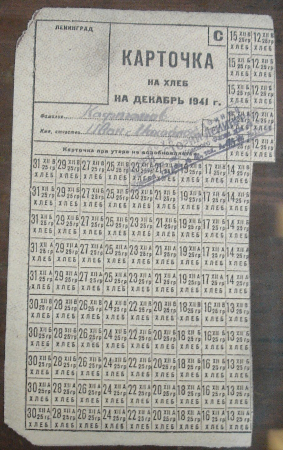 Bread ration stamp from 900-days Siege of Leningrad. December 1941